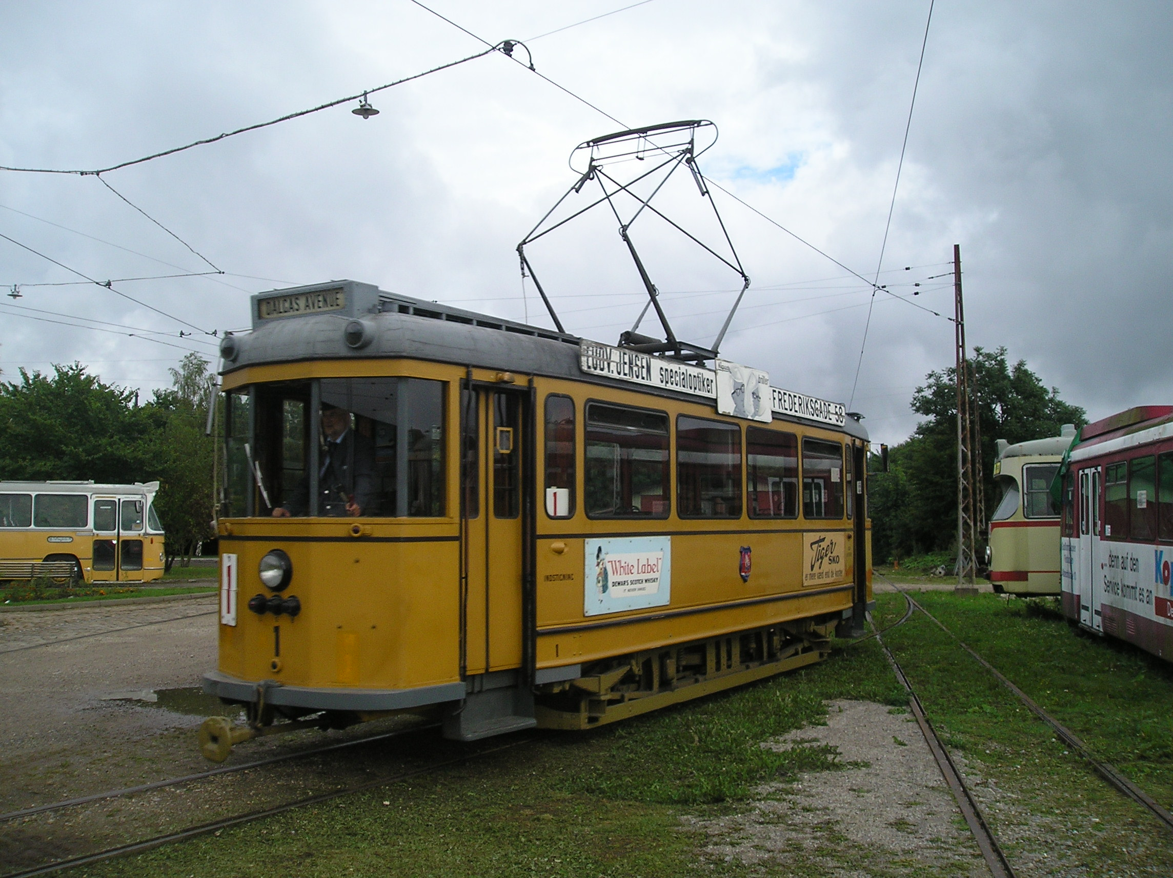 Old Århus tram 1 on the tramwaymuseum Sporvejsmuseet Skjoldenæsholm in Denmark.